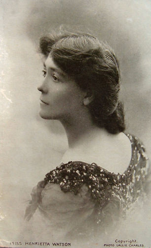 Postcard featuring a photograph of actress Henrietta Watson.